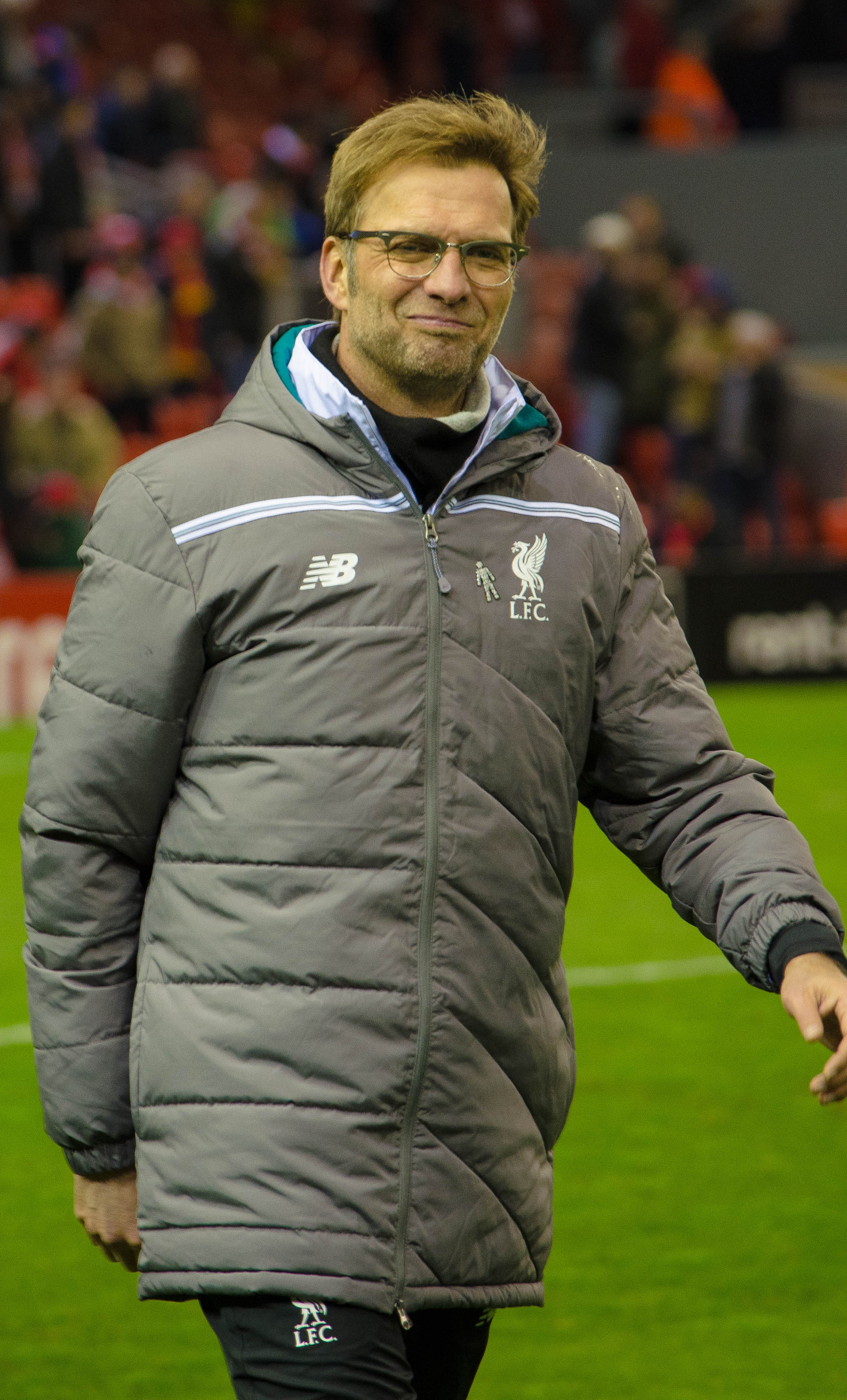 Juergen Klopp as manager of Liverpool FC before Europa League clash against FC Augsburg on 25 February 2016.